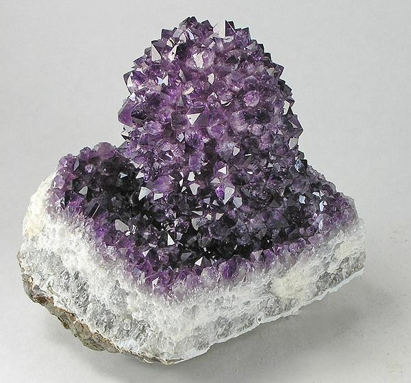 Quartz (Var.: Amethyst) Locality: Artigas, Artigas Department, Uruguay (Locality at ) Size: 15.9 x 15.6 x 10.6 cm. An incredibly striking amethyst specimen, actually a lot better in person, since the deep, gemmy purple that you see only in these Uruguayan (and perhaps Russian) amethysts did not come through completely in the photos. This is a complete, perfectly rounded knob, covered all around with these glassy, gemmy crystals. The matrix was carefully trimmed out to form a perfect natural base for this amethyst "cactus". A large and captivating showpiece specimen that is one of the few of these i regard as a real specimen, and not just a decorative rock!